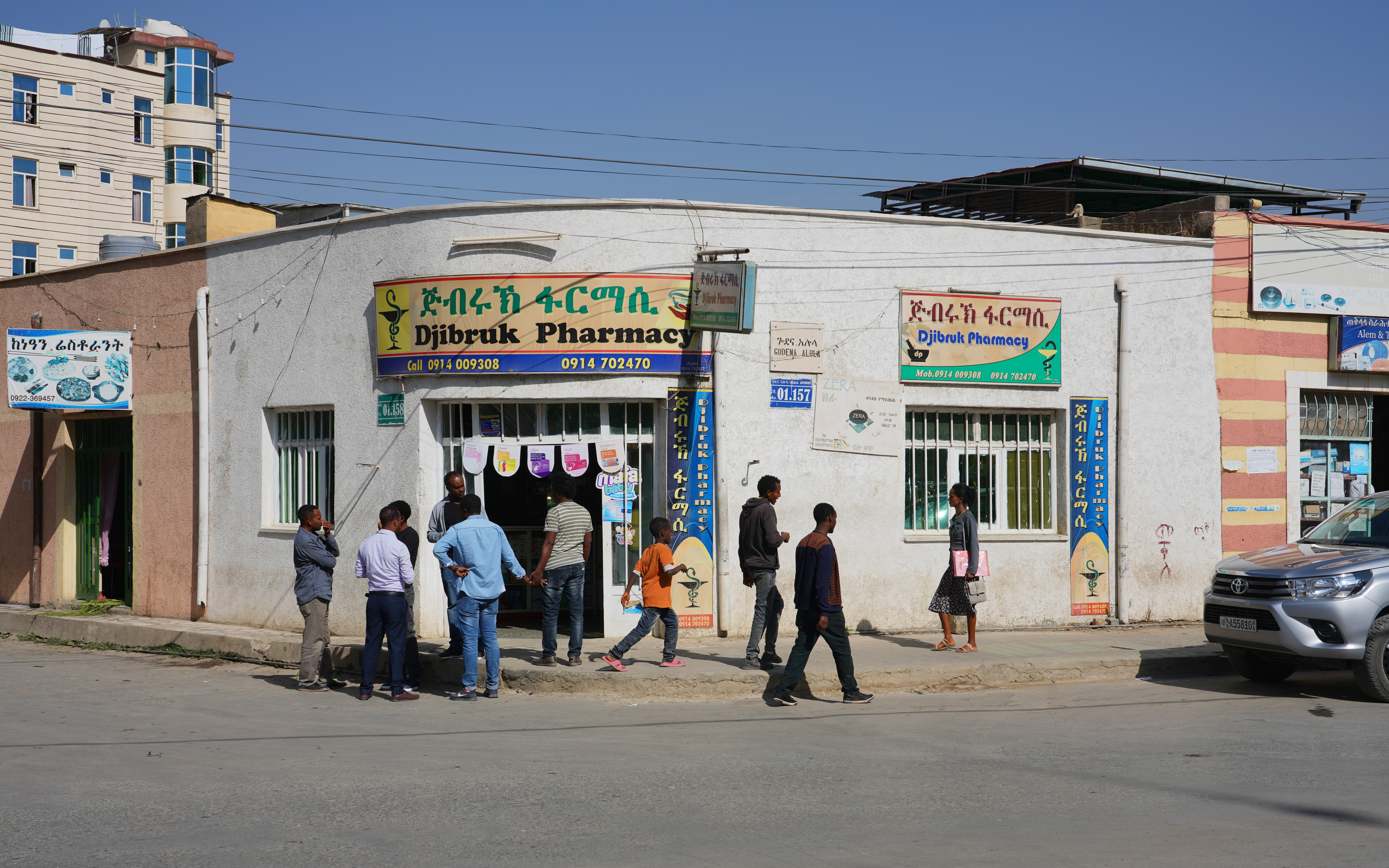 Pharmacy in Mekele, Ethiopia